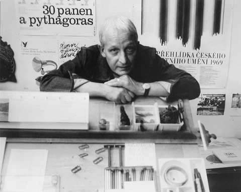 výtvarník Miloš Noll v ateliéru